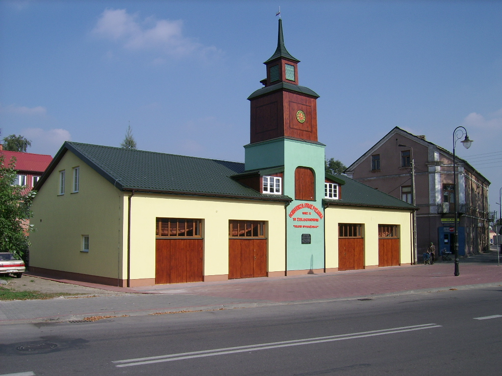 Old fire station in Żelechów, Poland